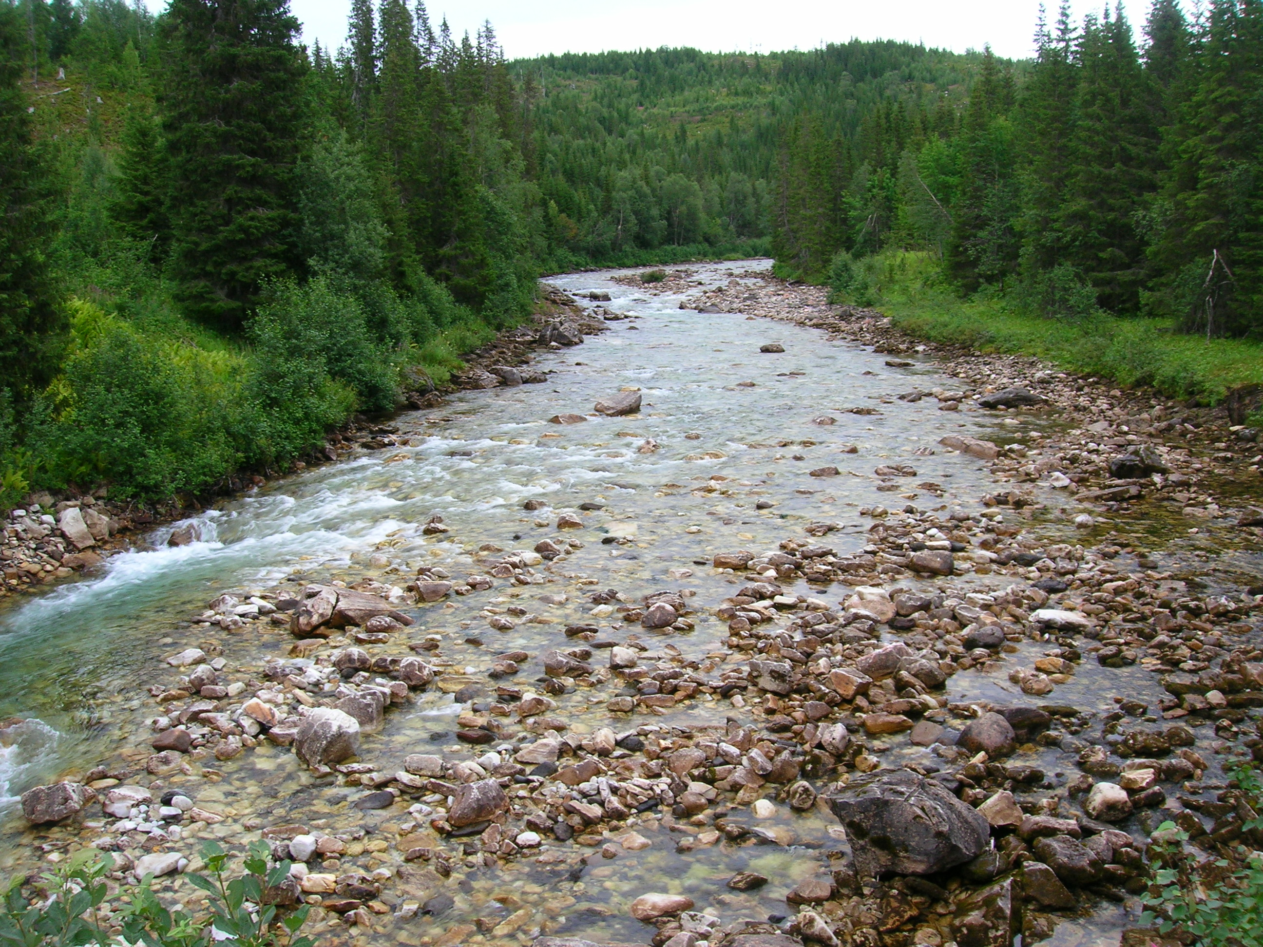 Grønnfjellåga seen 3,5 km east of its outlet in Ranelva at Stupforsmoen. Rana municipality, county of Nordland, Norway, Photo 6 August, 2007 with a Nikon Coolpix 5600 5,1 Megapixel camera.